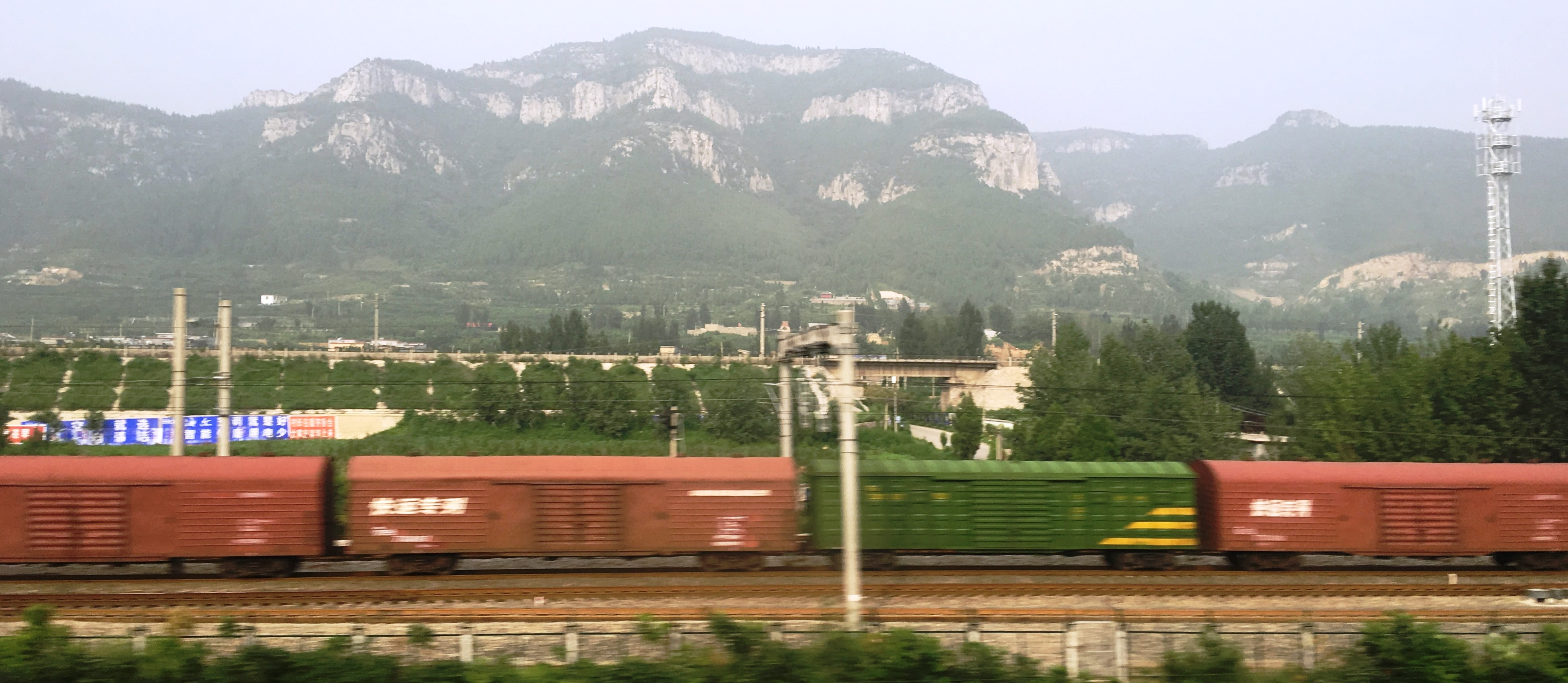 Image from the narrow valley connecting Tai'an to Jin'an, in the western part of the Taishan Mountain Massif, Shandong province, China.